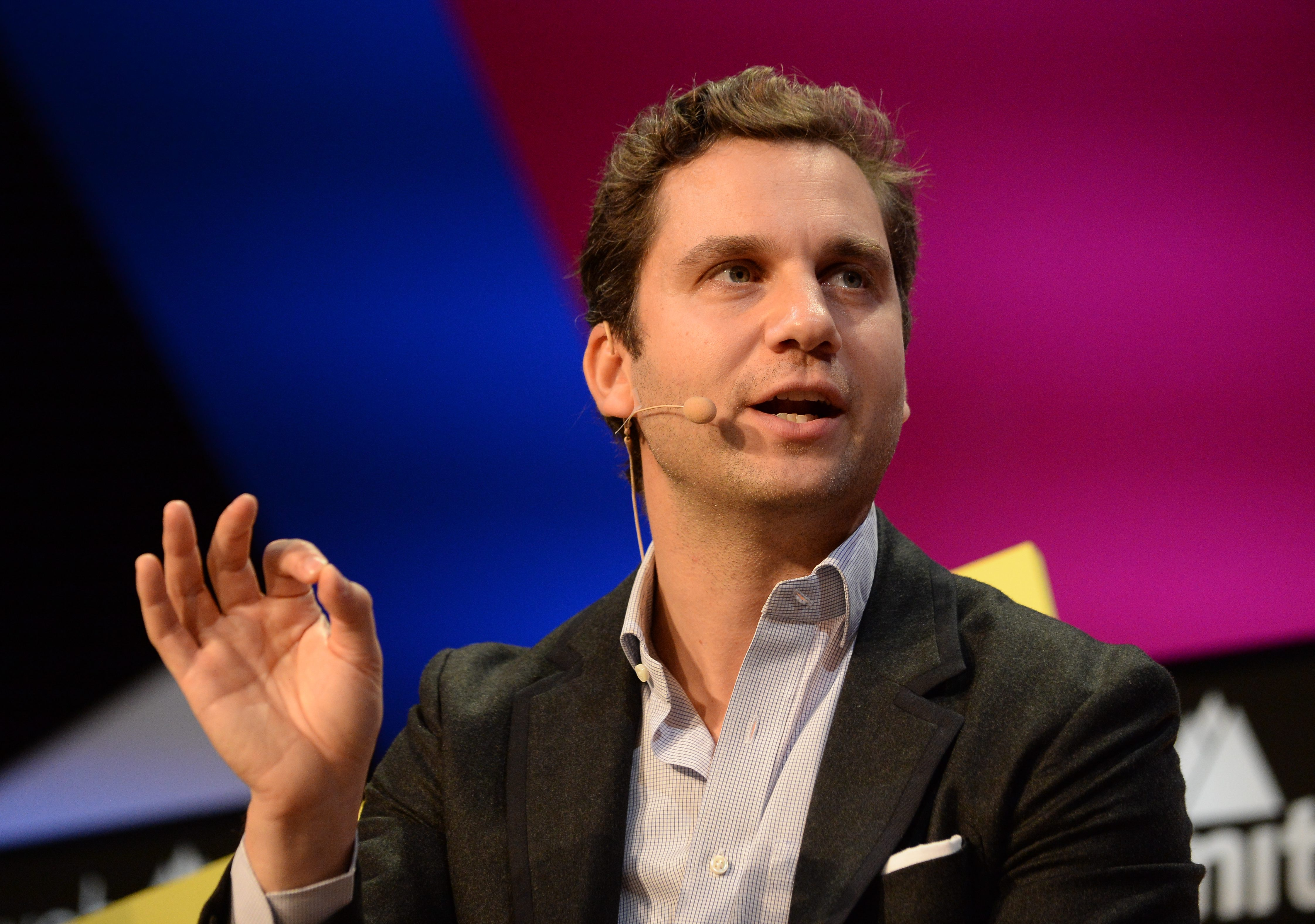 4 Nov. 2015: Kargo CEO Harry Kargman, part of a panel discussing "The advertising wars: Ad blocking and the consumer experience?" on the Marketing Stage during Day 2 of the 2015 Web Summit in the RDS, Dublin, Ireland. Picture credit: Cody Glenn / SPORTSFILE / Web Summit